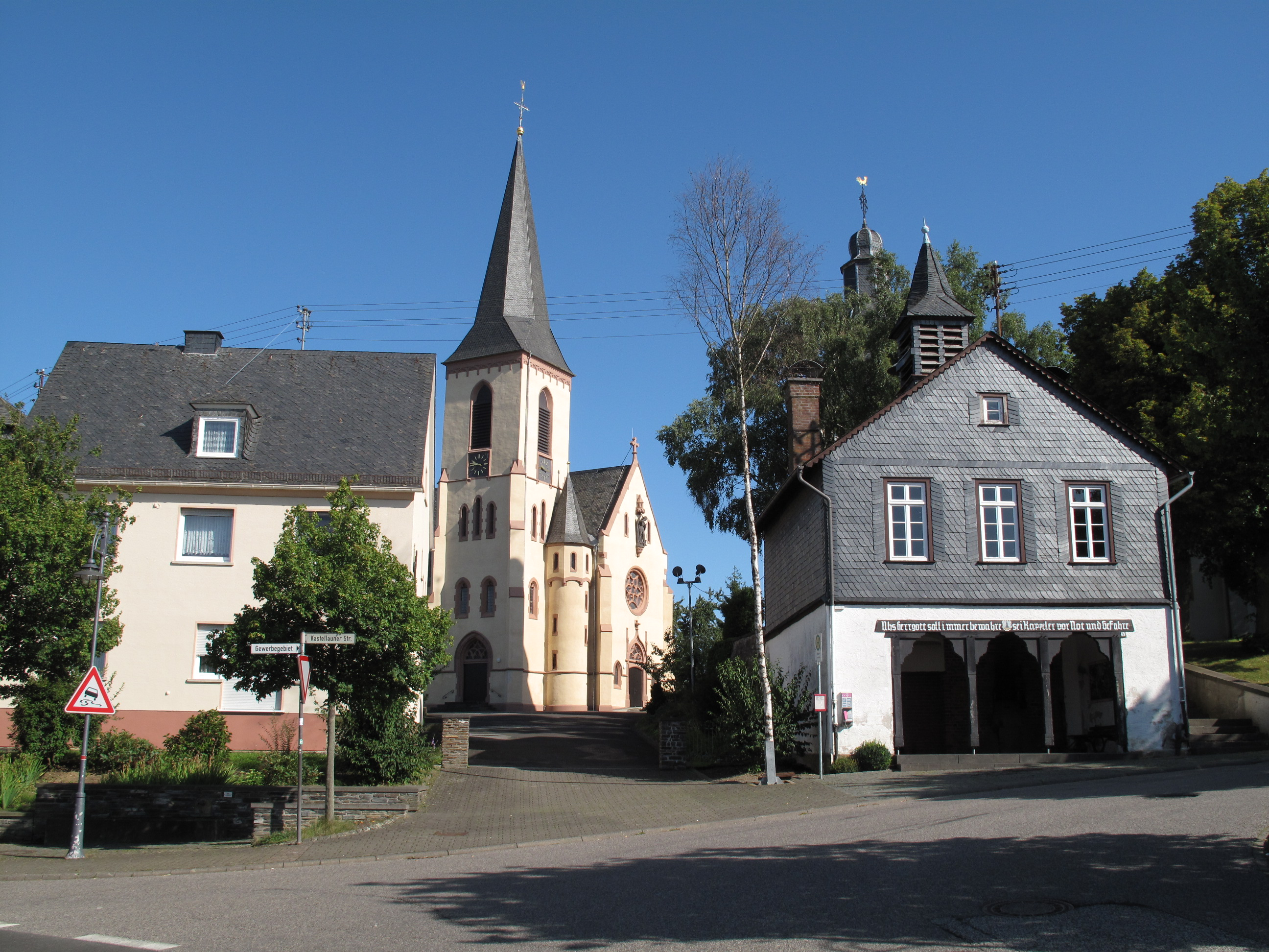 Kappel, altes Backhaus and church